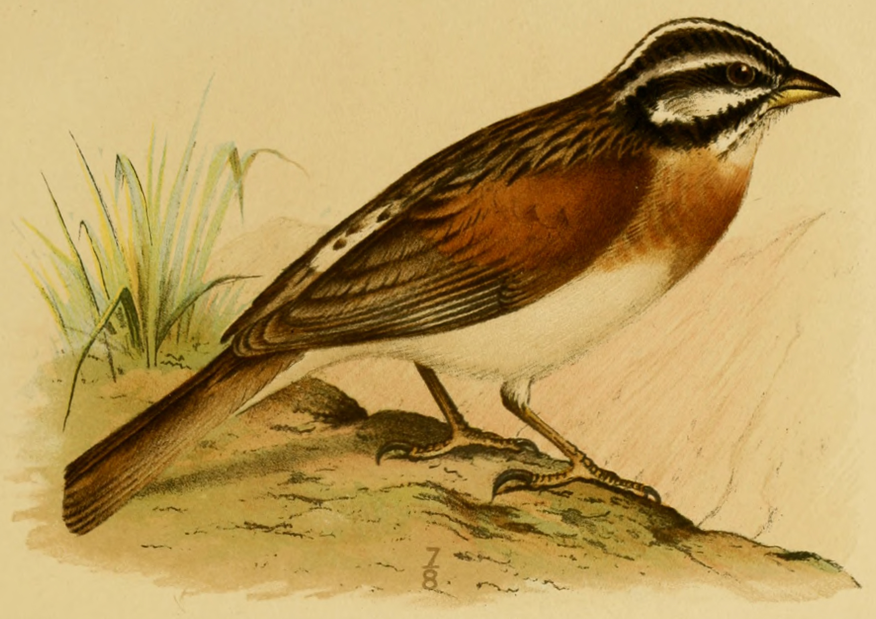 Socotra Bunting, from The Natural History of Sokotra and Abd-el-Kuri